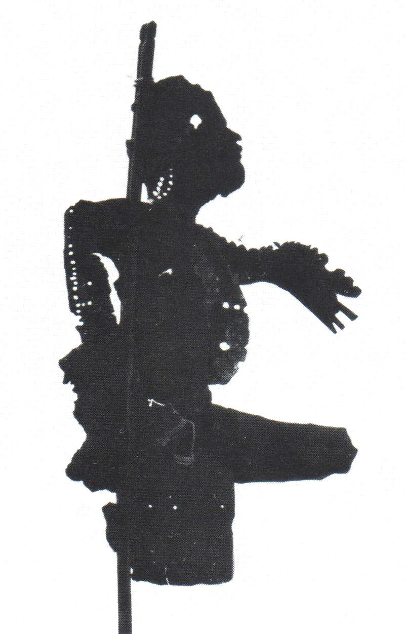 Katbo, Shadow puppet from Pinguli village, Sawantwadi, Maharashtra